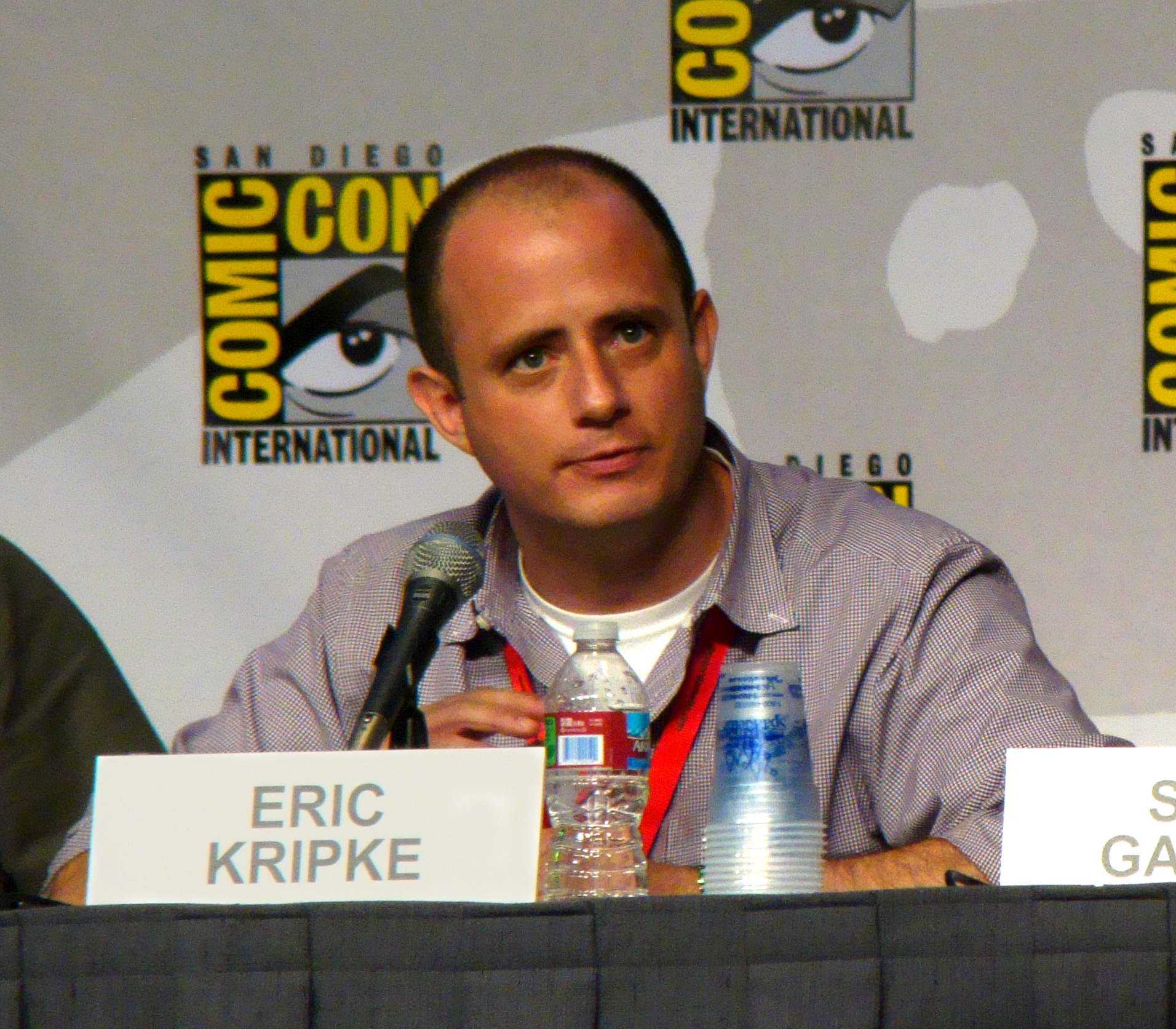 Eric Kripke – Comic-Con 2010 – "Supernatural" Panel